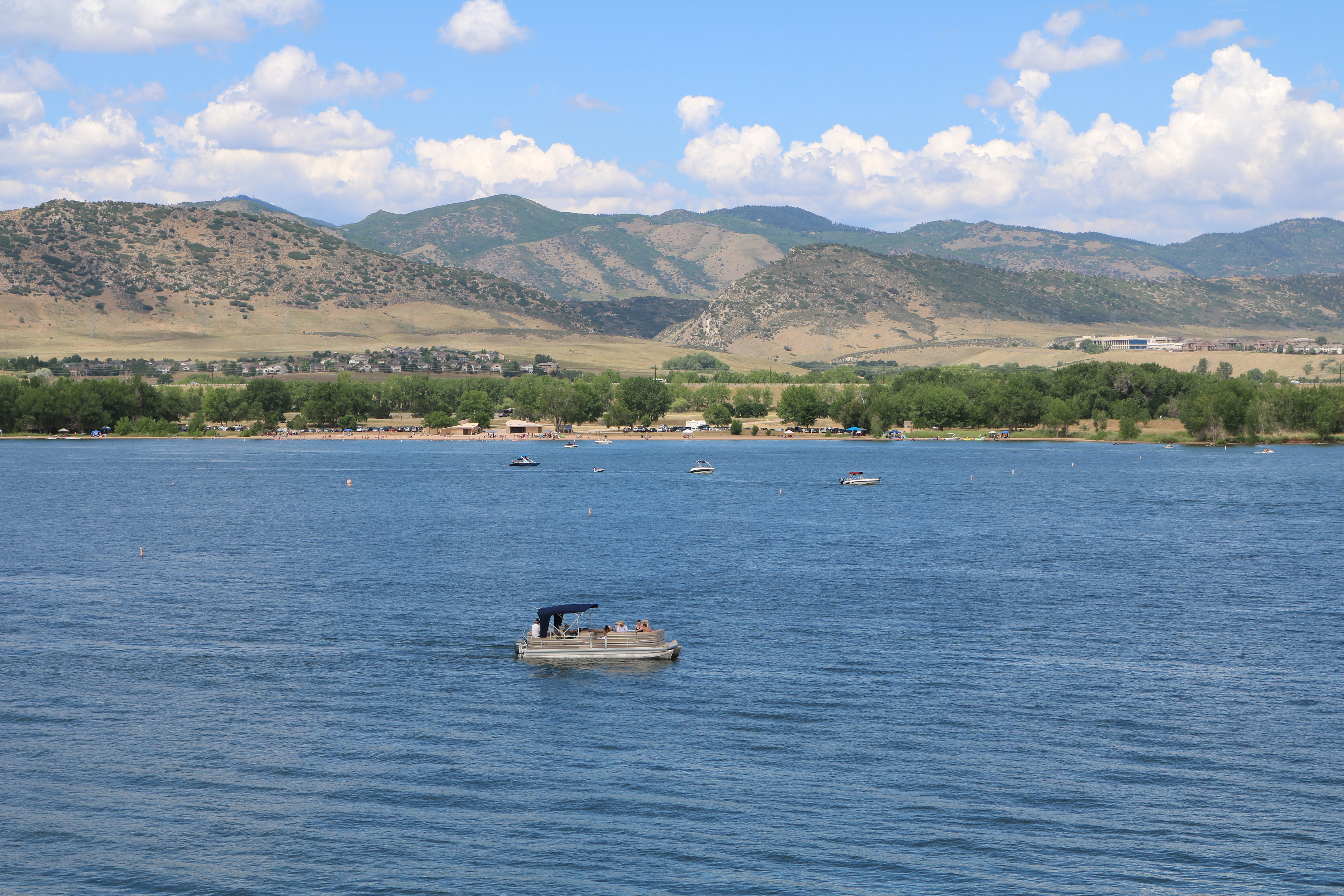 A view of Chatfield Reservoir in Chatfield State Park, in Douglas and Jefferson counties in Colorado. The view is towards the west and the park's swim beach. The border between Jefferson and Douglas counties lies in the middle of the channel and extends from left to right. The photographer is standing in Douglas County and the swim beach is in Jefferson County. Before the reservoir was built, the South Platte River flowed at the bottom of the channel.